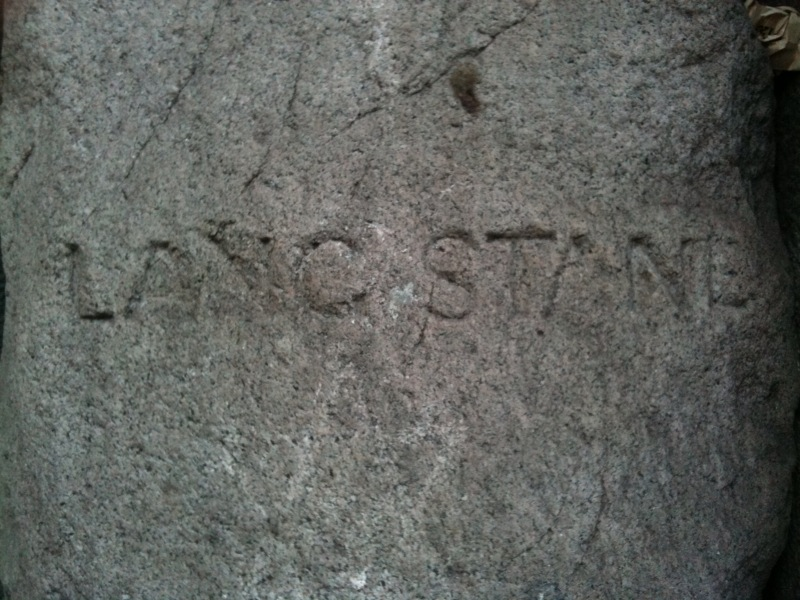 An image of the Lang Stane standing stone in Aberdeen, Scotland